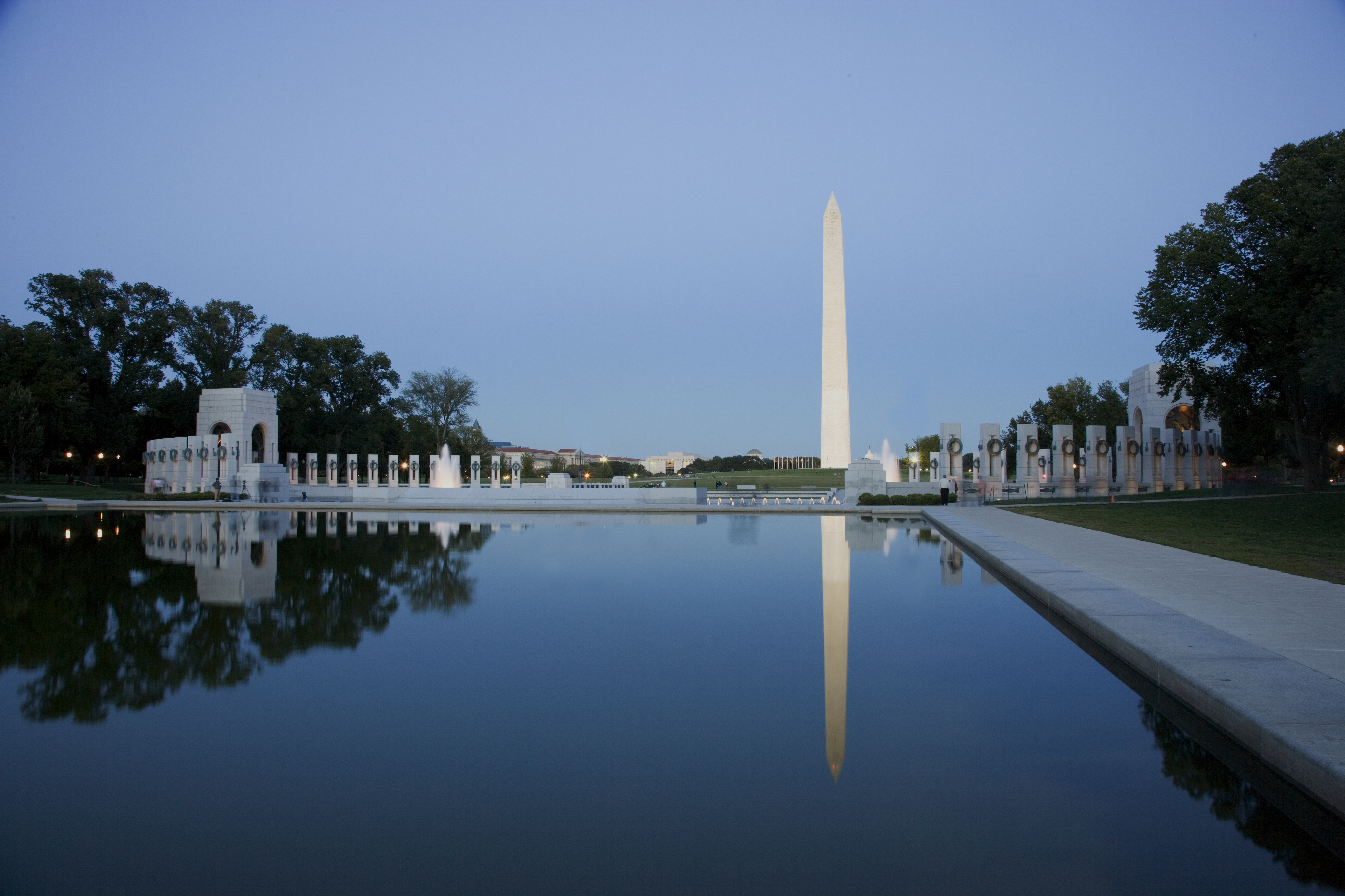 The National Mall is an open-area national park in downtown Washington, D.C., the capital of the United States. The National Mall is a unit of the National Park Service, and is administered by the National Mall and Memorial Parks unit.